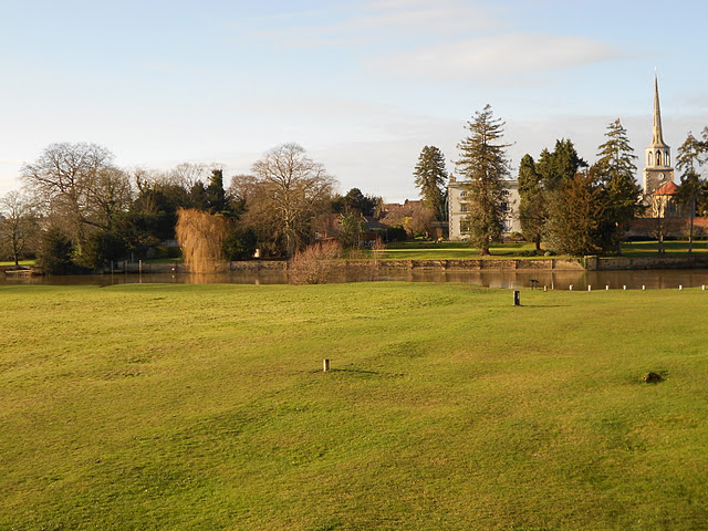 View across the River Thames to Wallingford, Oxfordshire (formerly Berkshire), with the spire of St Peter's parish church on the right